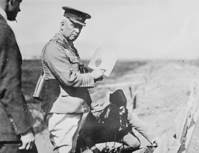 Sir Sam Hughes patented -- in his personal secretary’s name -- a shovel with a hole that a shooter could theoretically use as a shield. Caution kept it from being used on the Front, but thousands of these tools were purchased by the Department of Militia and Defence